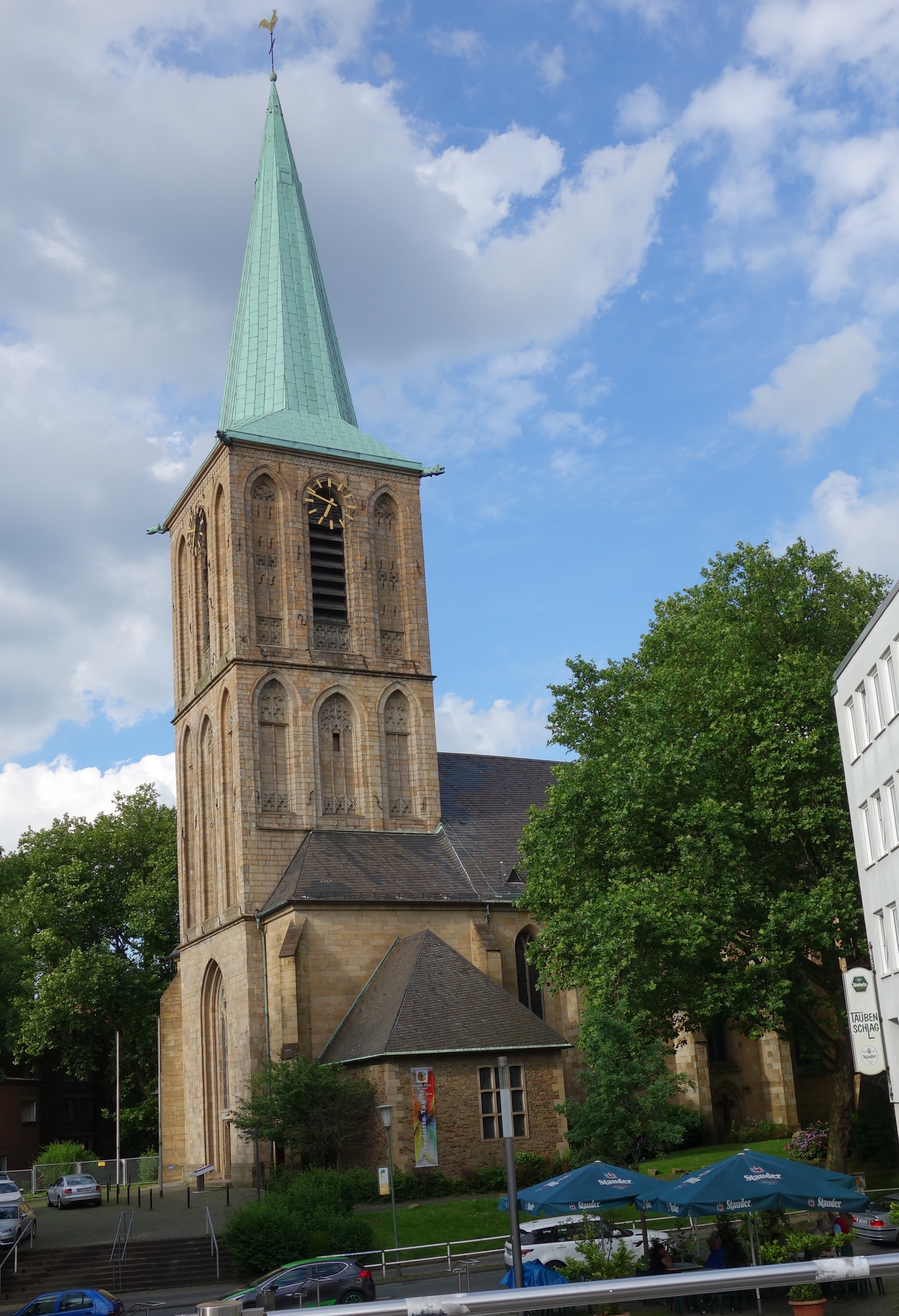 Church Probsteikirche, Bochum, Germany.